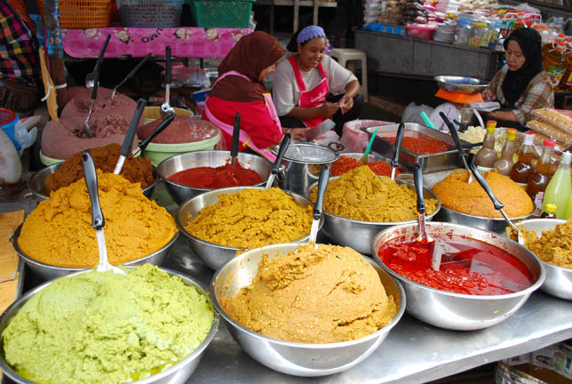 Thais buy small packets of these curry paste as instant ingredients for curry dishes. This picture was taken at Hat Yai Wet Market in Montri Road 1 & 2.